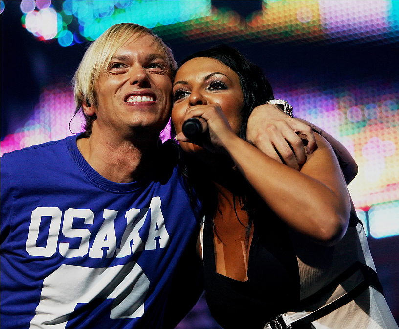 Milk Inc. Forever @ Sportpaleis Antwerpen 2008